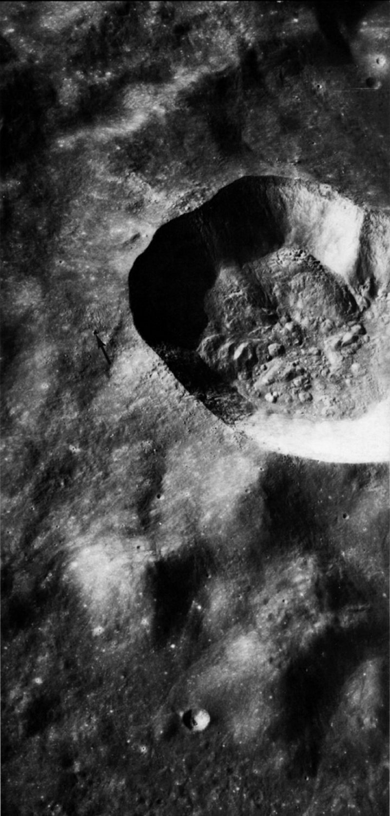 Oblique view of part of part of Proclus, on the moon. This is Figure 147 of Apollo Over the Moon (NASA SP-362, 1978), which has the following caption: This oblique view looks south over the 26-km-diameter crater Proclus in the highlands at the western edge of Mare Crisium. Proclus is a young rayed crater that is distinctive because of the marked asymmetry of its ray system-a characteristic visible even in Earth-based telescopic views. The excluded zone is along the southwest edge (top of photograph) but is visible in this moderate Sun photo only as a slight albedo change. Laboratory experiments suggest that a low trajectory angle might account for the asymmetry. A number of large blocks can be seen at the edge of the crater rim. The exceptionally large block (arrow) is about 200 m wide and, judging from the length of the shadow it casts, nearly as high. As in several other craters shown in this chapter, a darker layer is present in the upper part of the crater wall.-J.W.H.